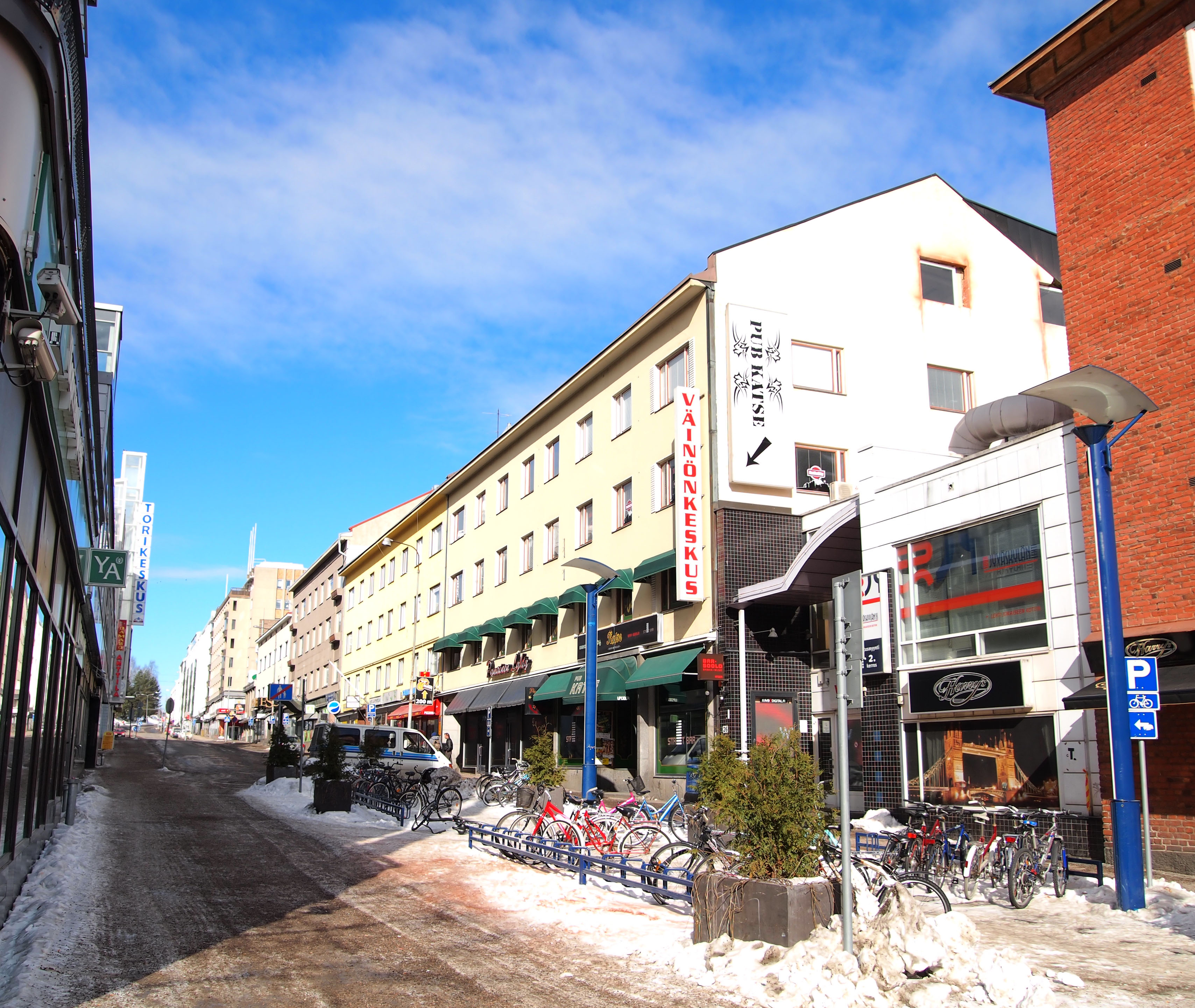 Street Väinönkatu and shoppingmall Väinönkeskus in Jyväskylä.